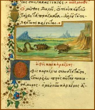 An illustration of Aesop's fable of The Snake and the Crab in the Medici Manuscript dating from the 1470s